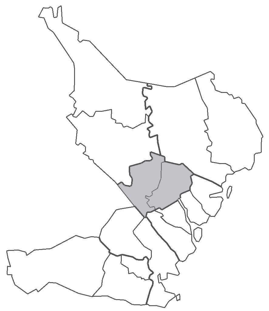 Map describing the location of Ångermanland Middle Court District in Västernorrland County, Sweden.